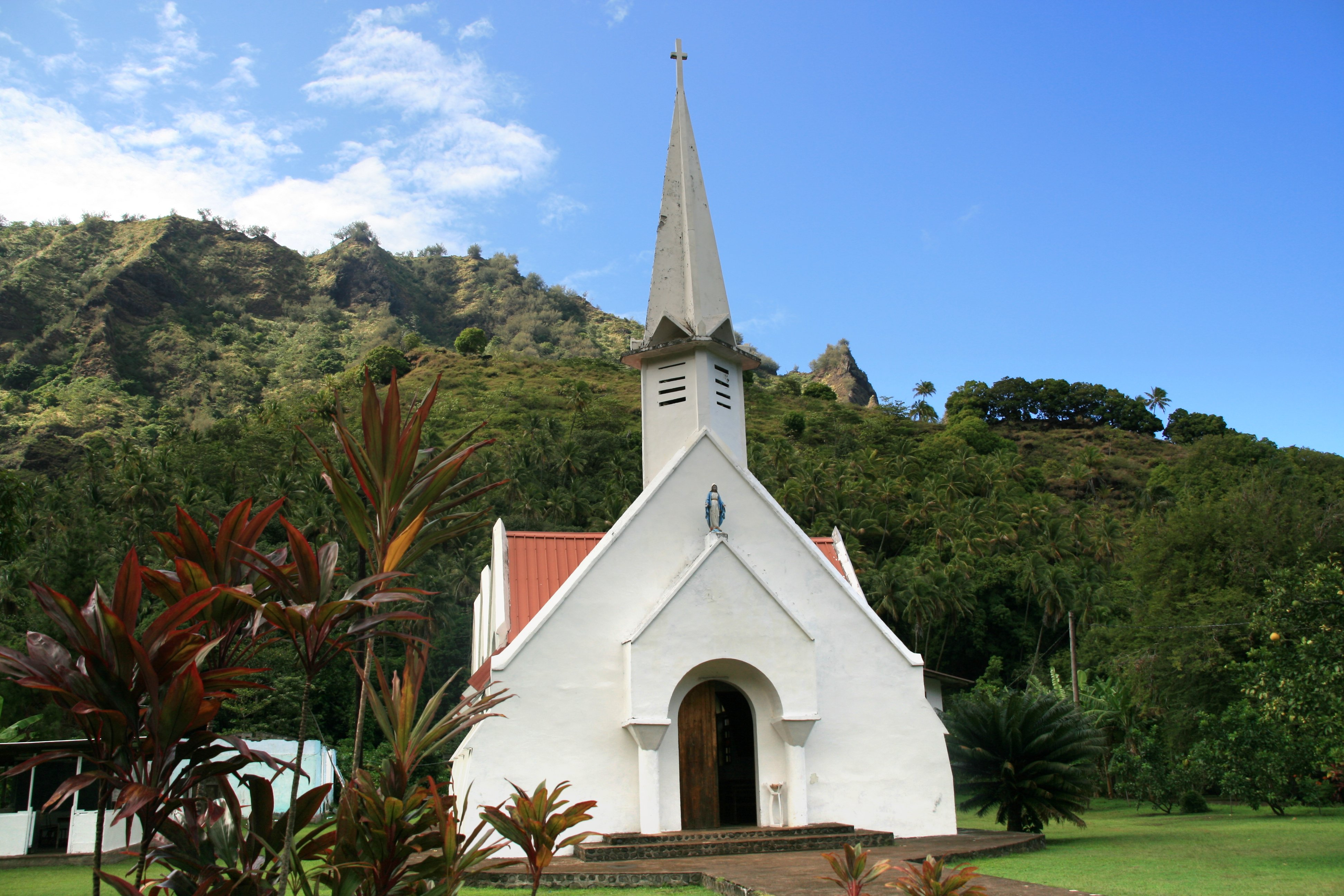 Catholic church of Omoa village, island of Fatu Iva, Marquesas islands, French Polynesia.